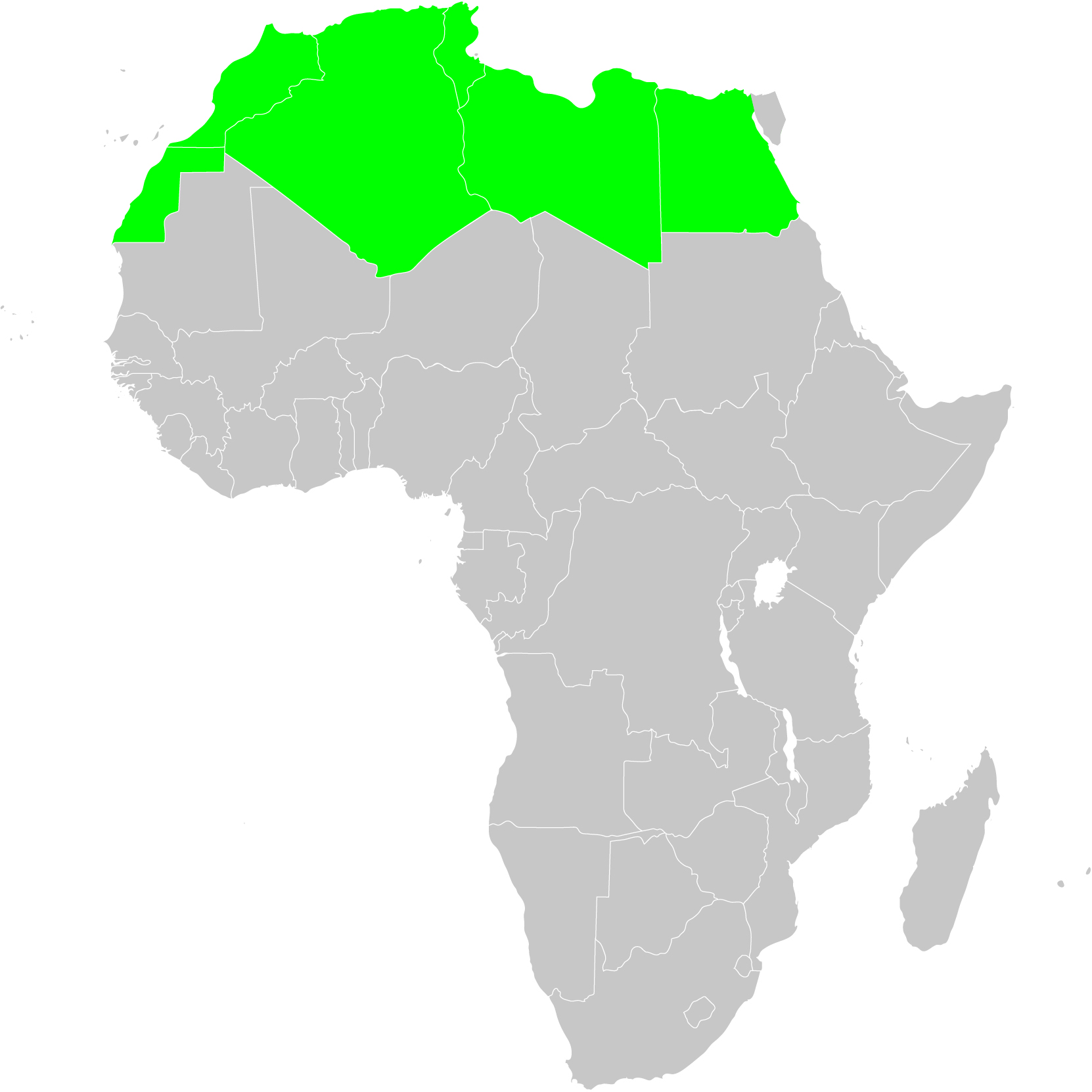 North Africa, as defined by the World Geographical Scheme for Recording Plant Distributions